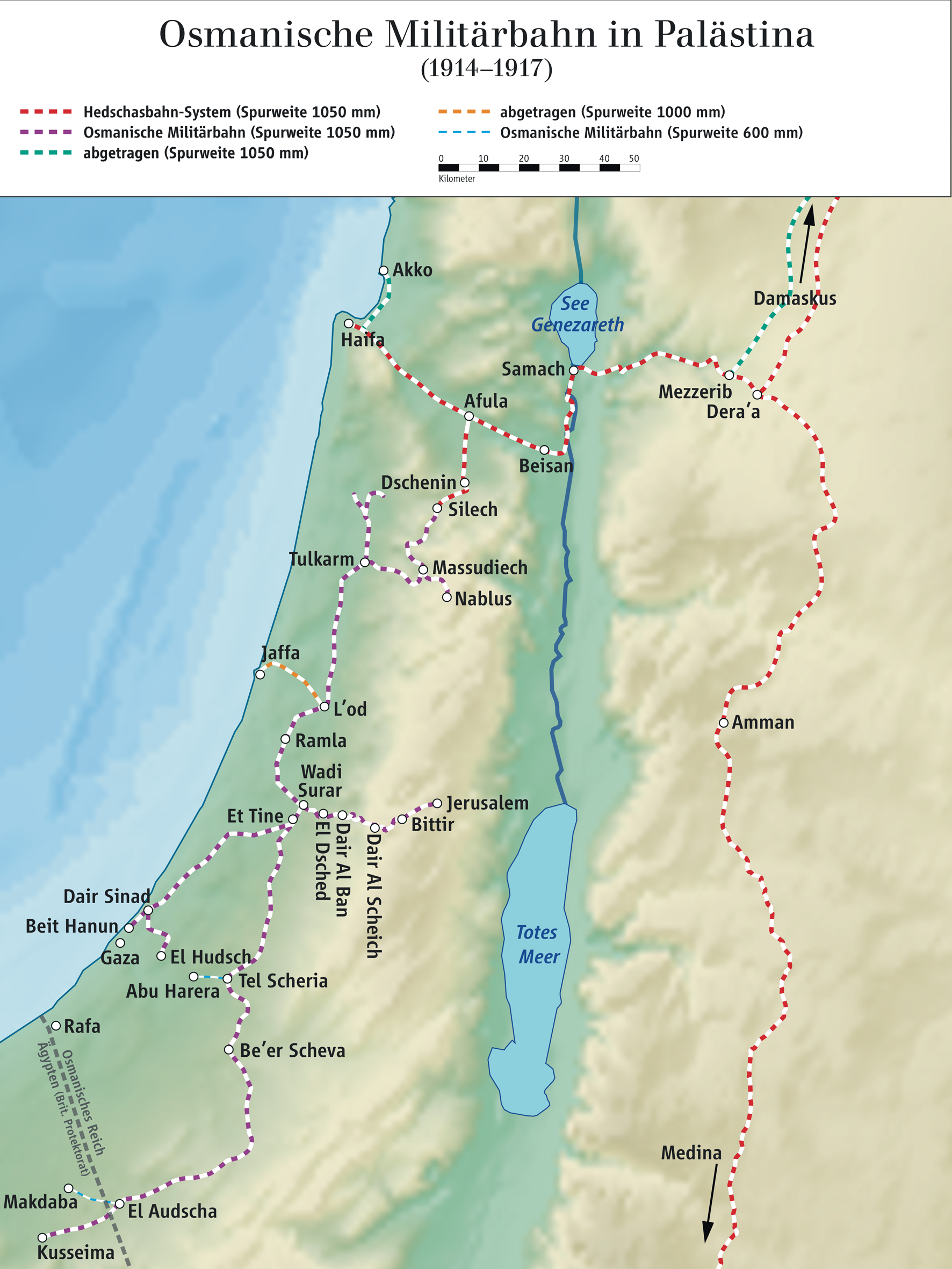 Ottoman military railway network in Palestine 1914–1917